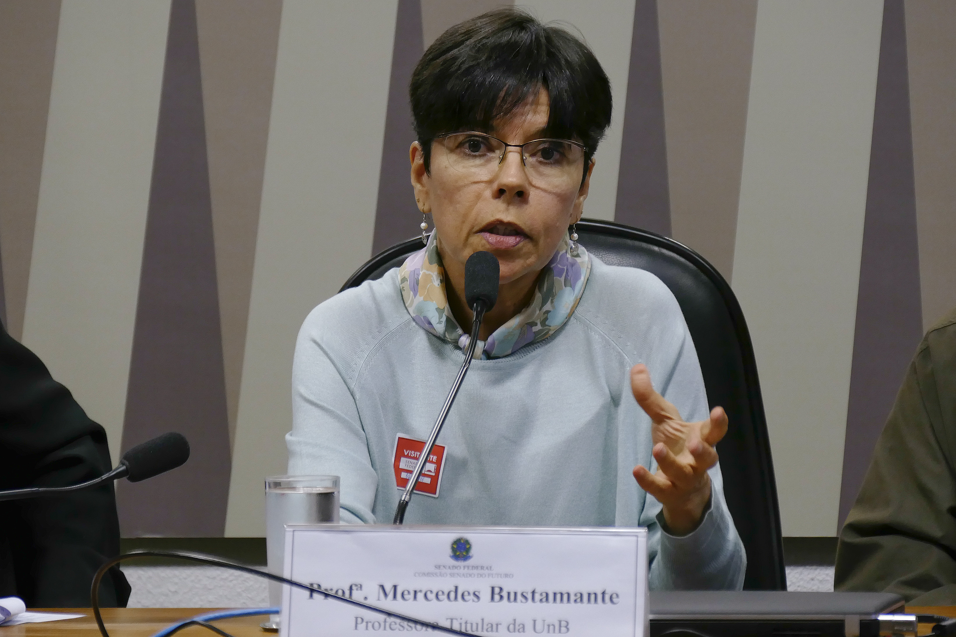 Senate of Future Commission hosts "2022 The Brazil that We Want" Dr.Bustamante discusses environmental policies.